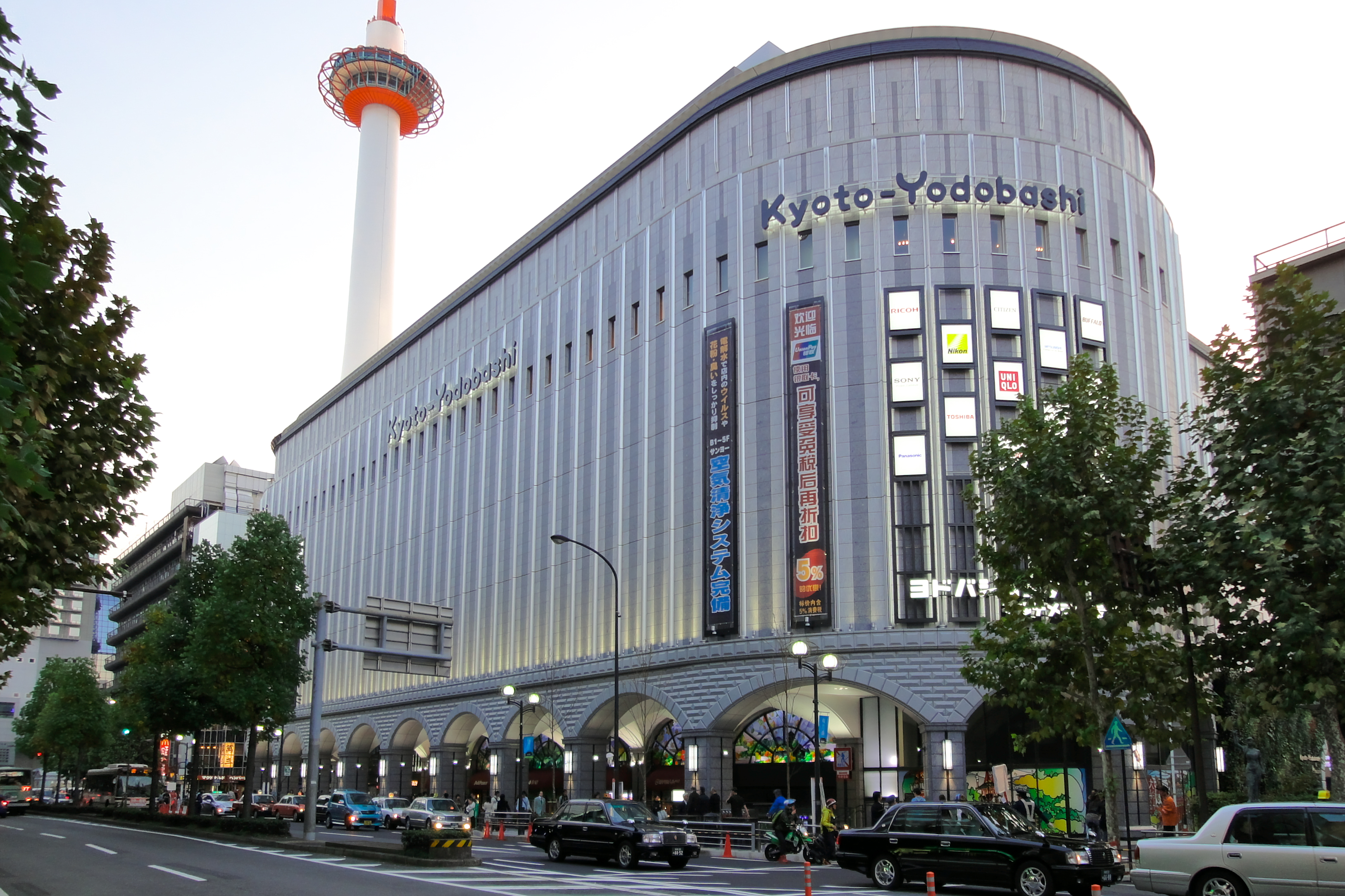 Photograph of Kyoto Yodobashi Building, including Yodobashi Camera Multimedia Kyoto, in Shimogyo-ku, Kyoto, Kyoto Prefecture, Japan.